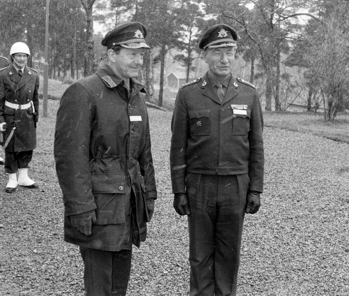 The newly appointed Inspector of the Swedish Armoured Troops, Colonel 1st Class Per Björkman on a first time visit to the regiment (Södermanland Regiment, P 10). Greeted here by the regimental commander, Colonel 1st Class Stig Colliander and a relatively abundant dizzy weather.